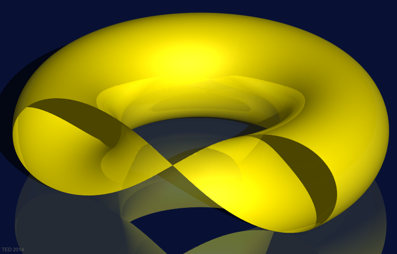 A toric section - the lemniscate.